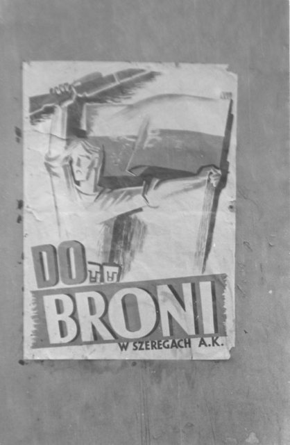 Warsaw Uprising: Poster „To Arms in Ranks of AK” on a wall. Poster datails: Author: Mieczysław Jurgielewicz and Edmunt Burke Format: 100x70 cm colored lithograph Ordered by: 4th Press and Publishing Division of Armia Krajowa Bureau of Information and Propaganda Printed by: Secret Military Publishers on Chmielna Street